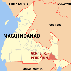 Map of the Maguindanao showing the location of General S.K. Pendatun